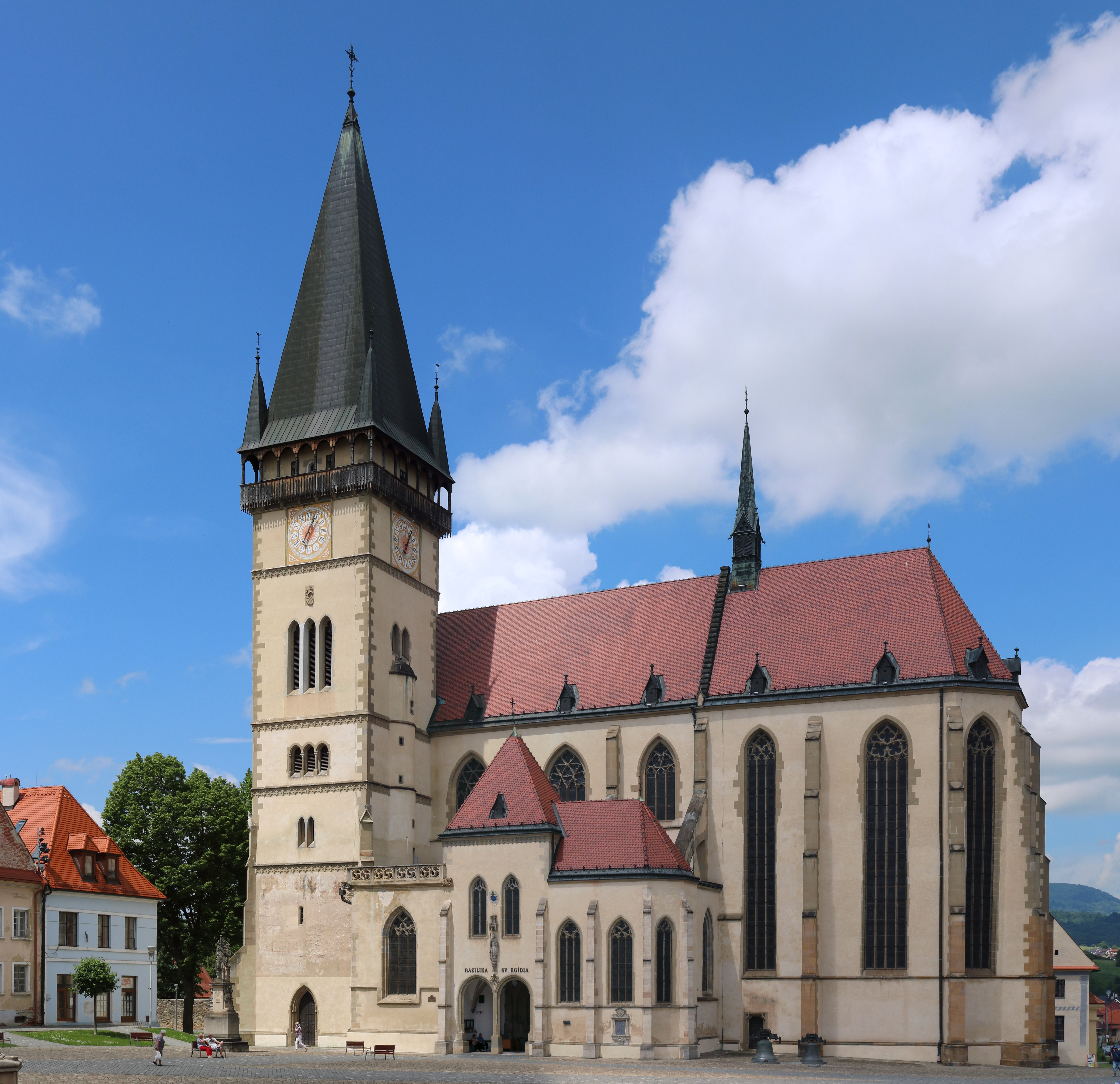 Bardejov / Church of St. Aegidius